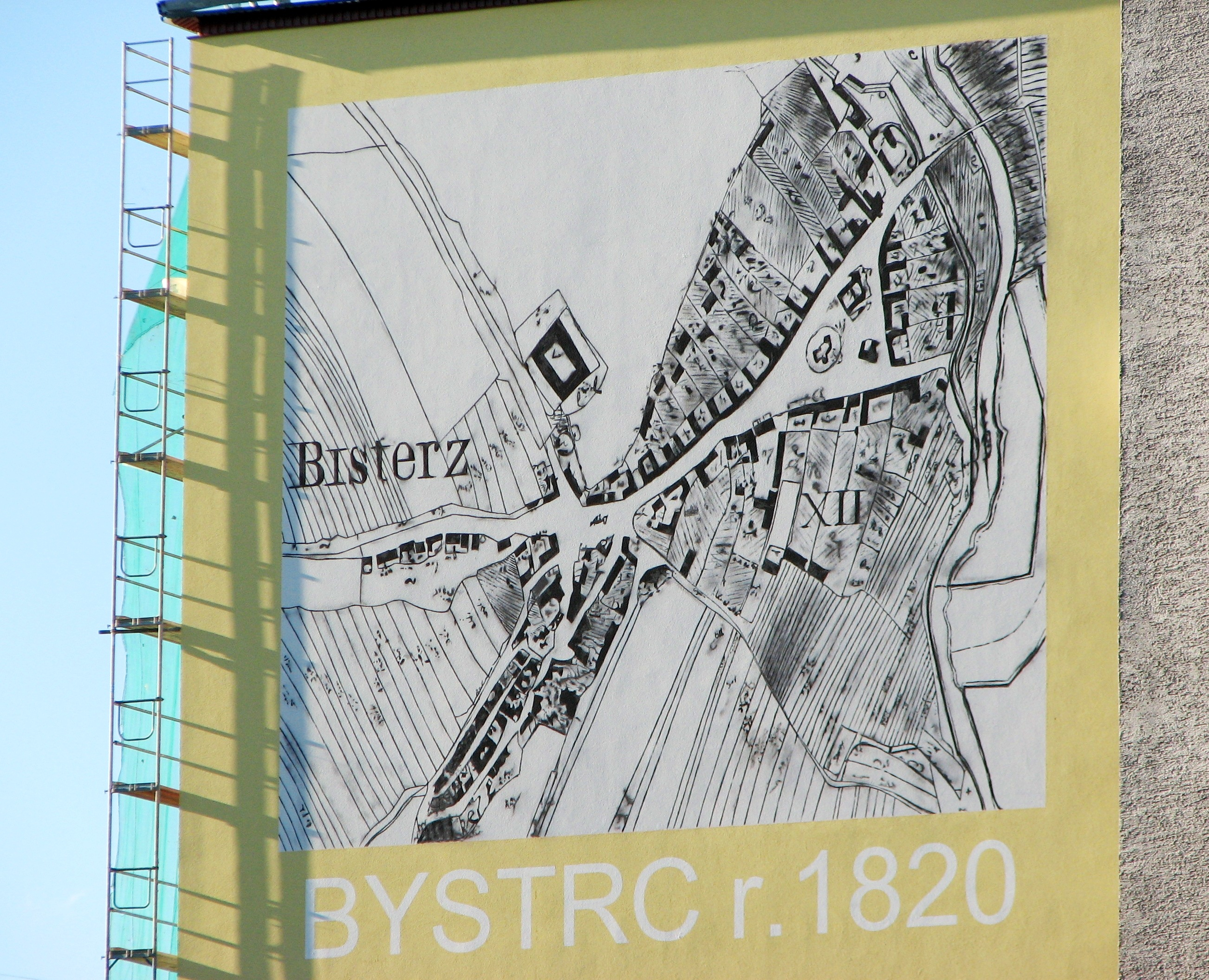 A map of Bystrc (suburb of Brno) on a wall of a house